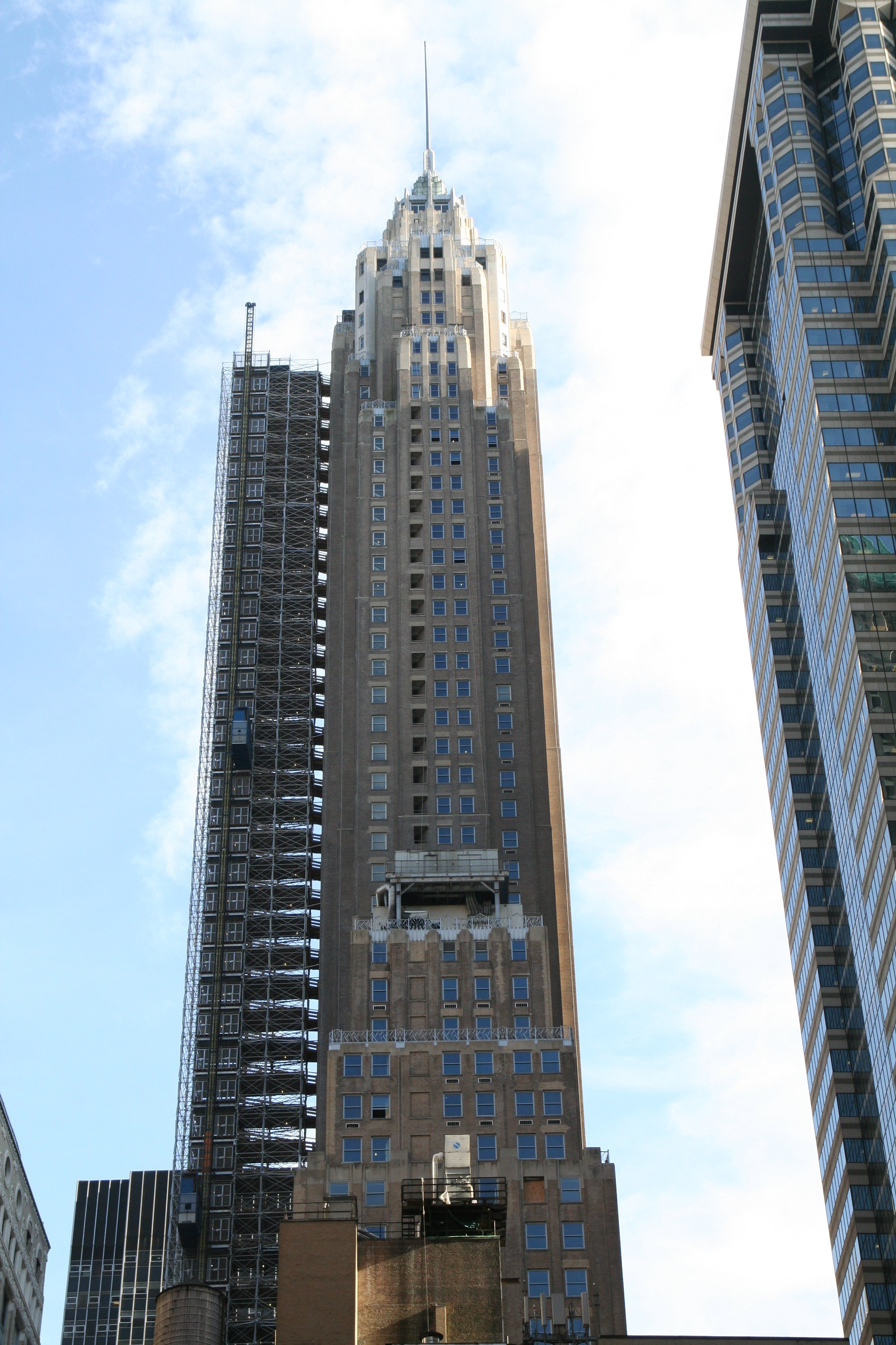 70 Pine Street under renovation in 2014